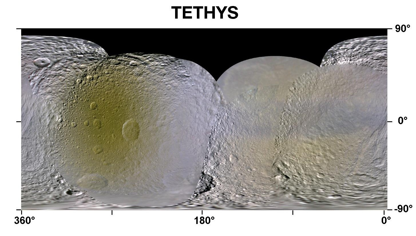 This is an enhanced-color map made from data obtained by NASA's Cassini spacecraft shows Saturn's moon Tethys. (cut from the original image)